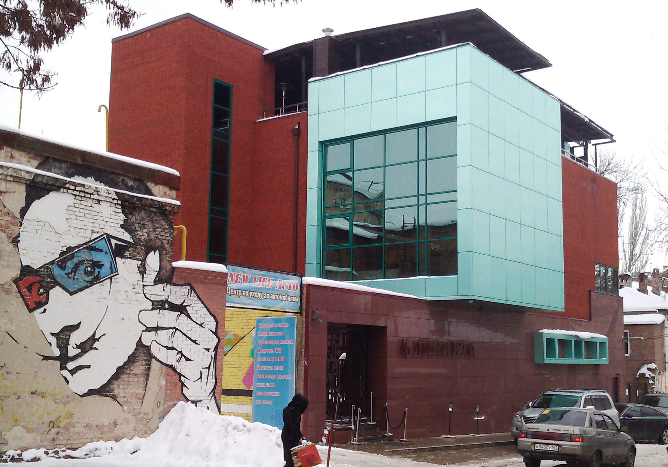 16thLINE art-gallery